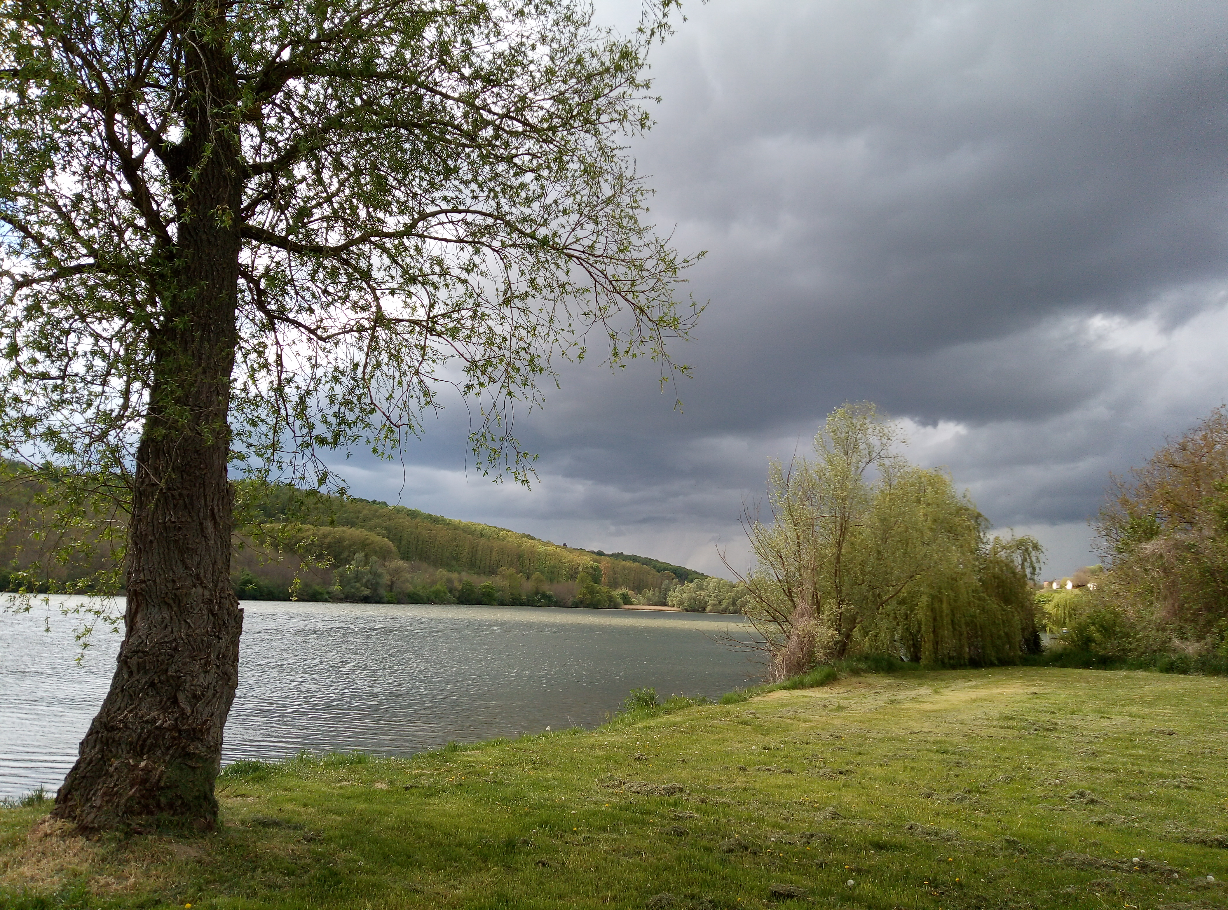 Hásságy, Lake Hásságy - 29. 04. 2020